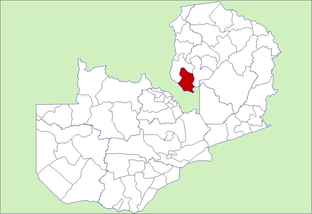 District locator in Zambia